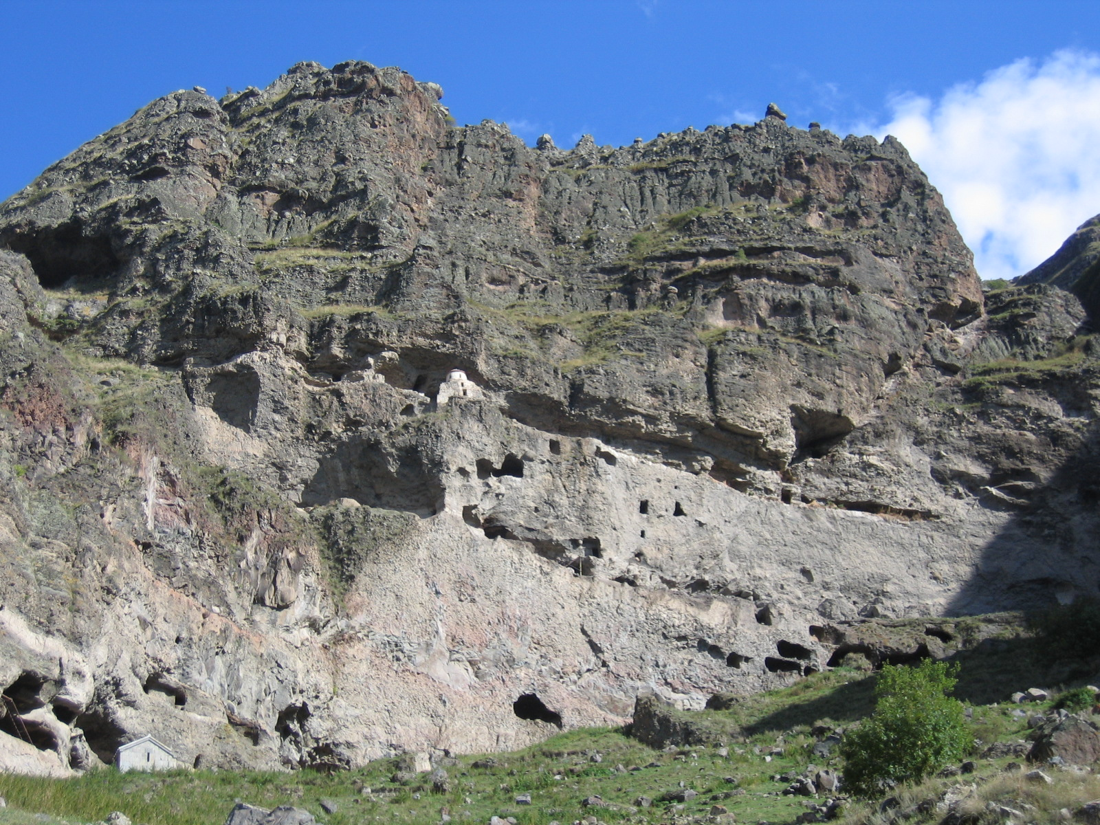 Vanis Kvabebi in Aspindza district Georgia